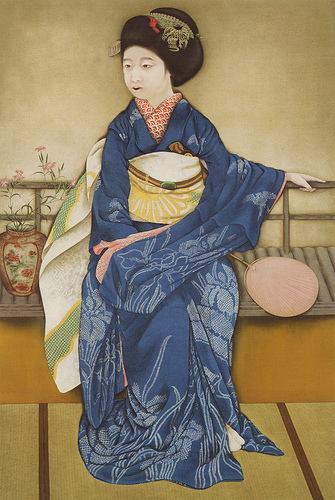 Maiko of Kyoto